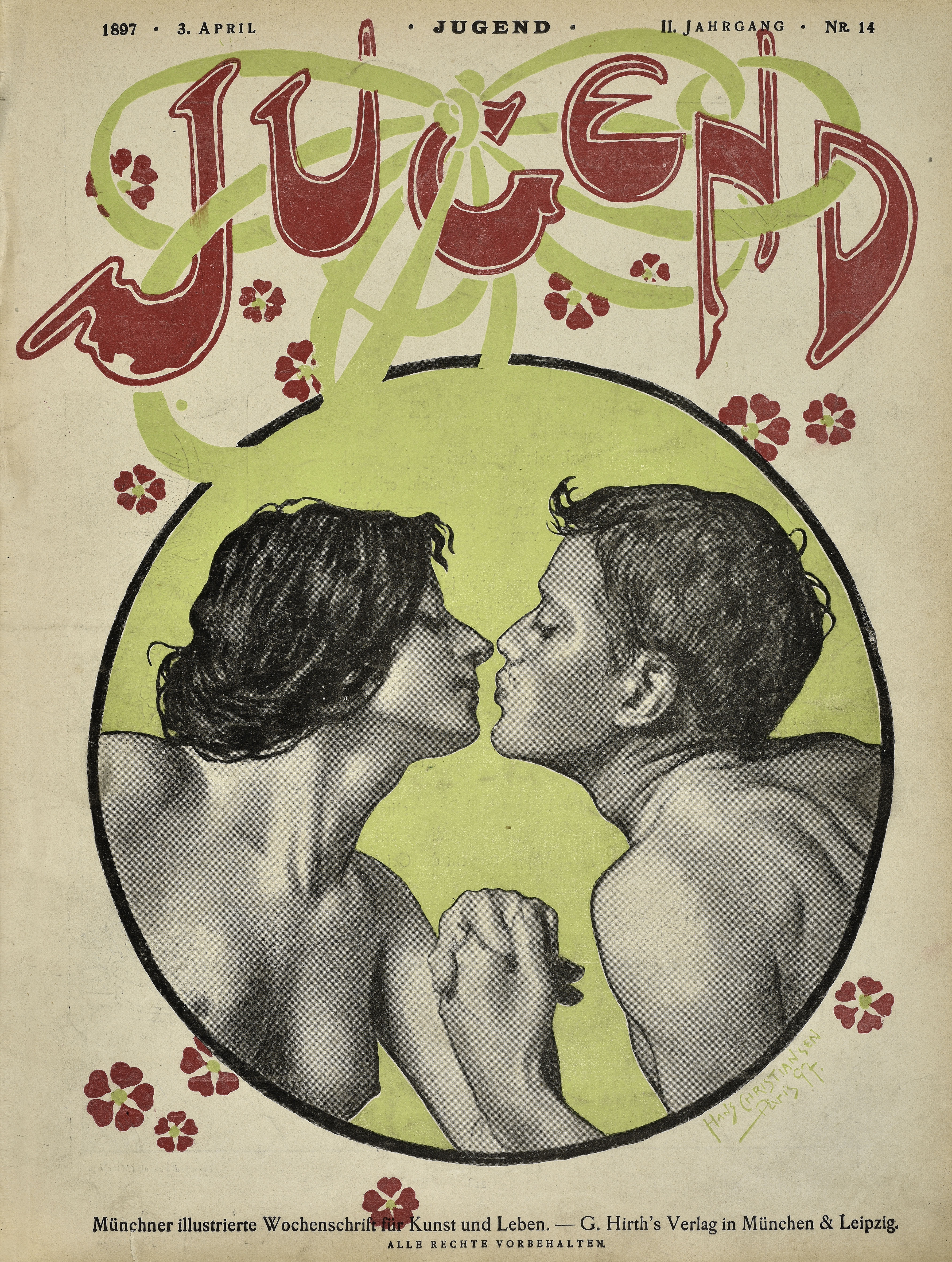 Hans Christiansen, dessin de couverture paru dans Jugend (Georg Hirth dir.), n°14, 3 avril 1897